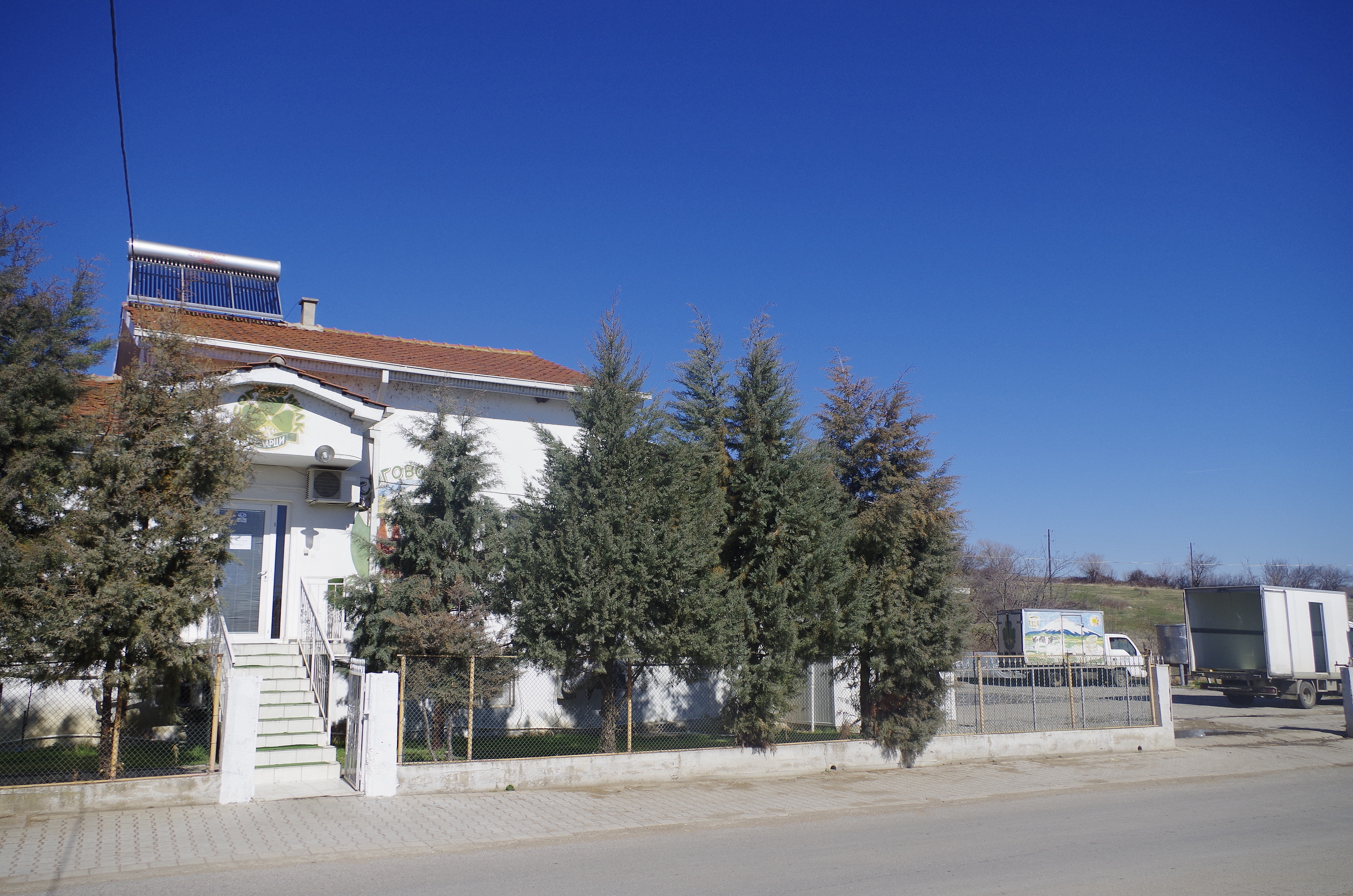 Dairy Osogovo Milk in Sokolarci, Macedonia